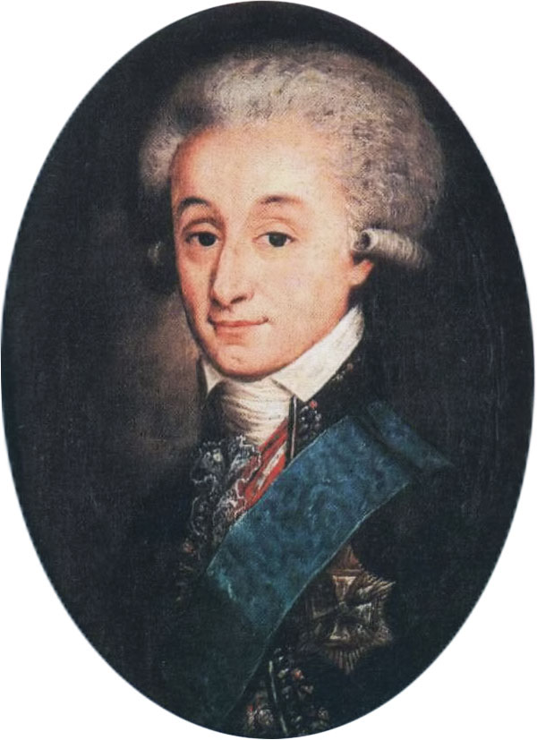 Portrait of Maciej Radziwiłł (1749-1800)